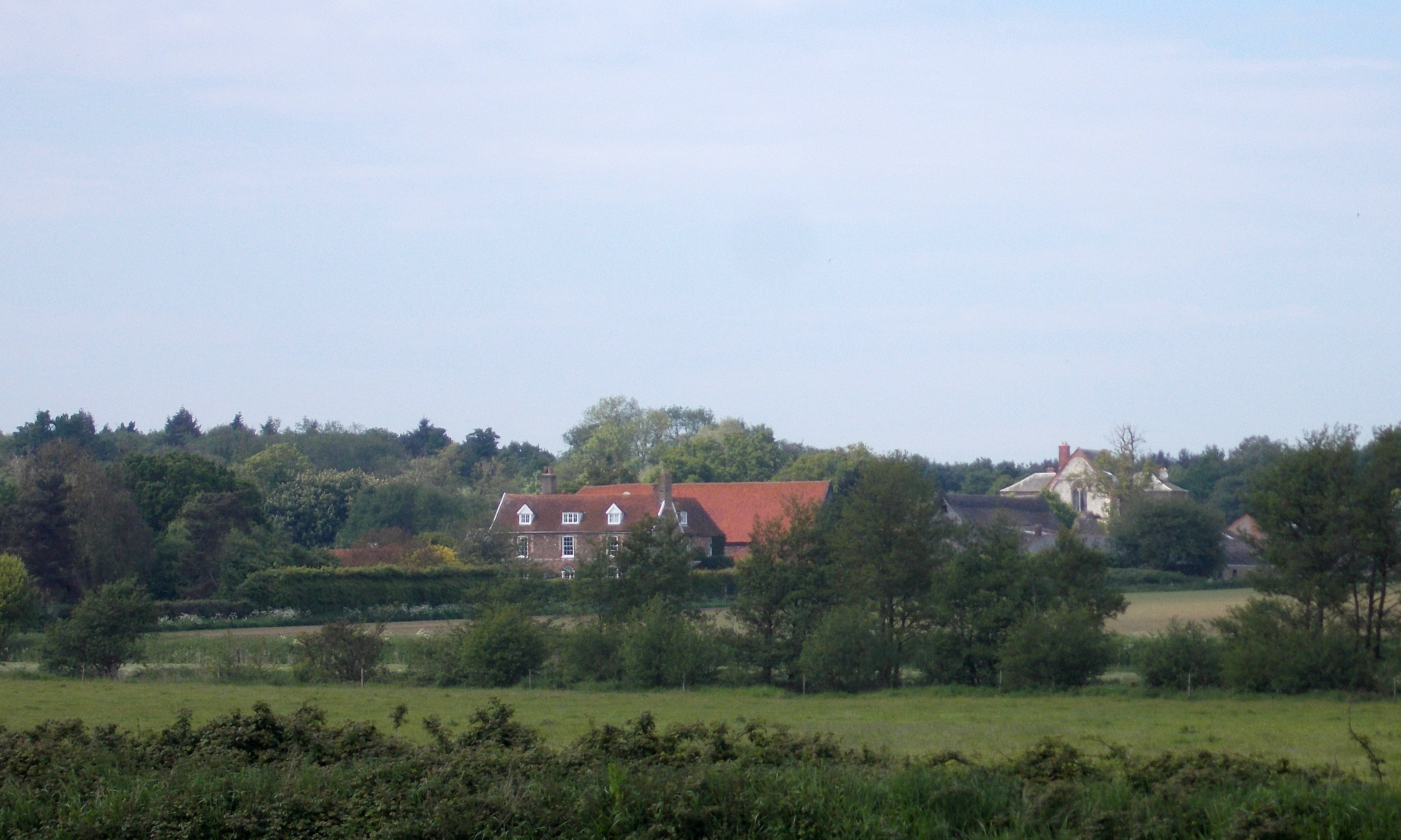 View of the site of Butley Priory, Suffolk, from the south-east, showing the gatehouse to the north, and the farm buildings on the site of the church and convent.